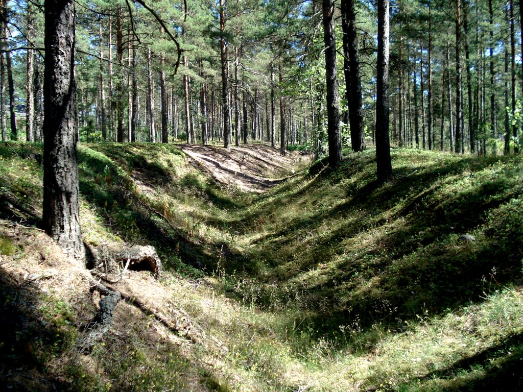 Remains of World War II dugouts in the forest on the Hanko peninsula, just east of the town of Hanko. The whole area is full of them.